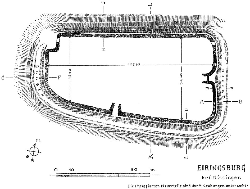 Scan of a historical map - around 1910